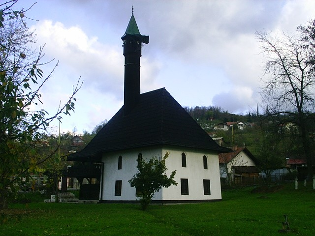 Town of Tuzla, northeastern Bosnia and Herzegovina